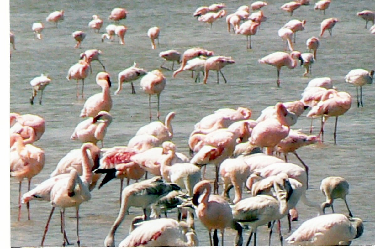 Flocks of lesser Flamingoes on Lake Abiyatta